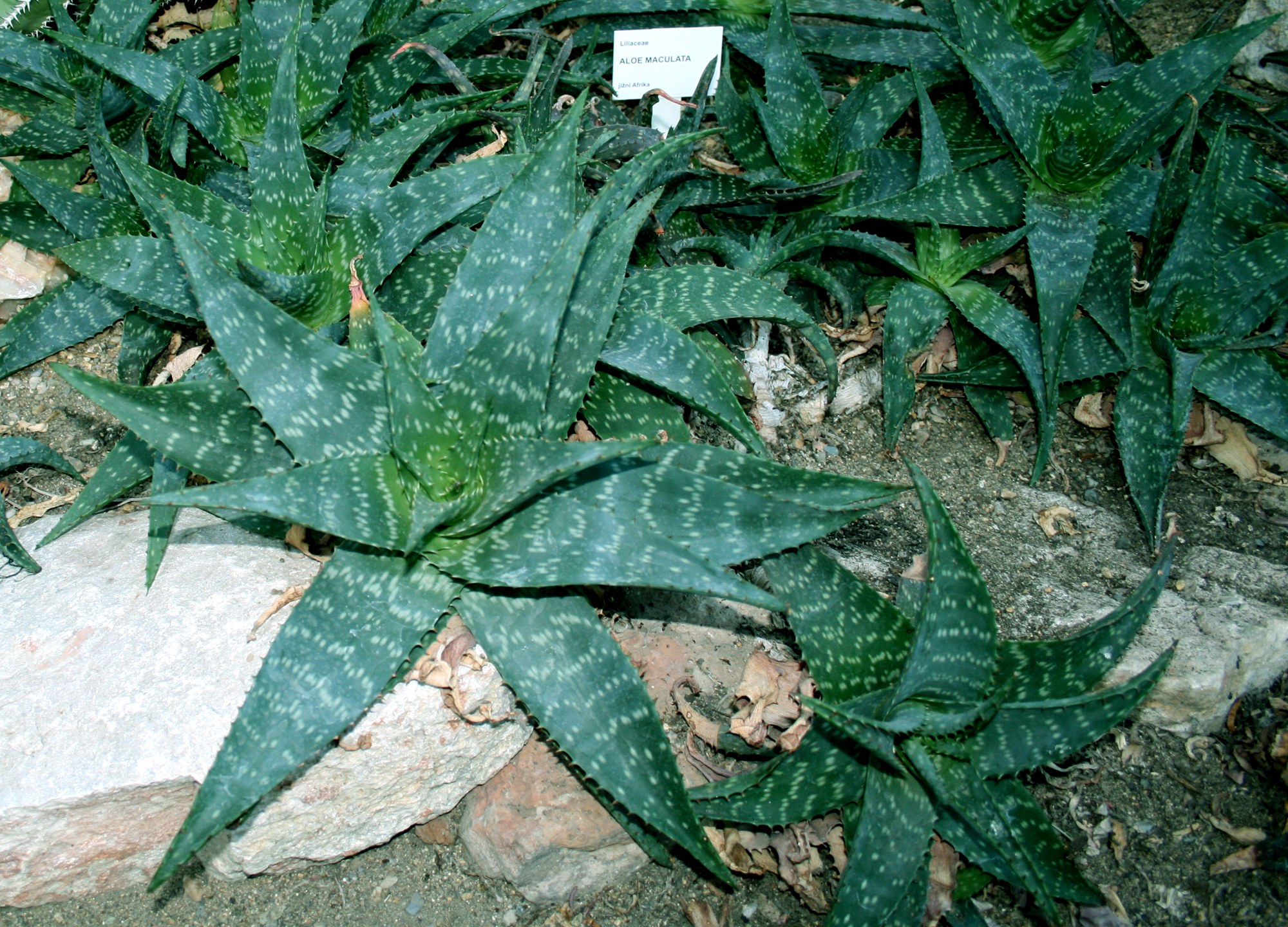 Aloe maculata Botanic garden Prague, Czech republic Date=February 2008 Author= Karelj